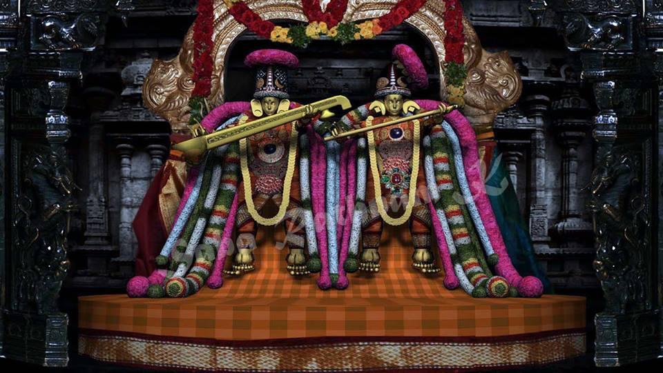 Thirumangalam Shri Pathirakali Mariamman